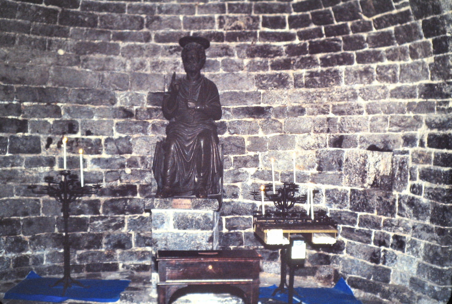 A statue of Saint Peter in Chiesa San Pietro, Portovenere, Liguria, Italy.